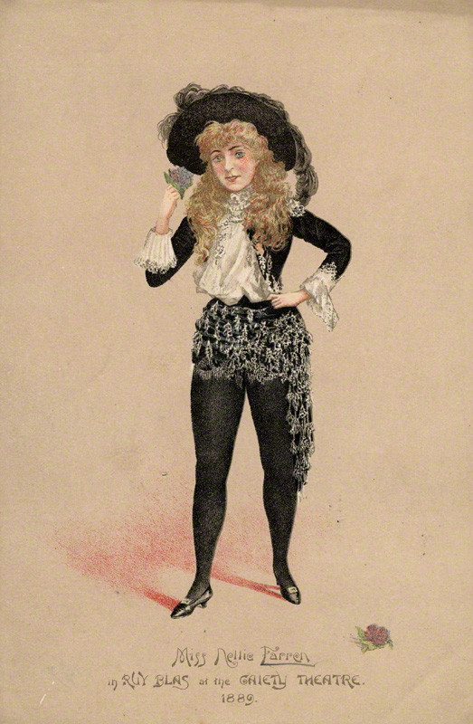 Nellie Farren in Ruy Blas and the Blase Roue, 1889